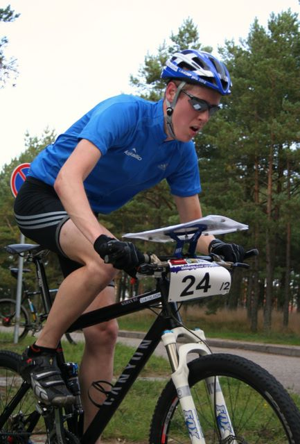 This work is free and may be used by anyone for any purpose. If you wish to use this content, you do not need to request permission as long as you follow any licensing requirements mentioned on this page.